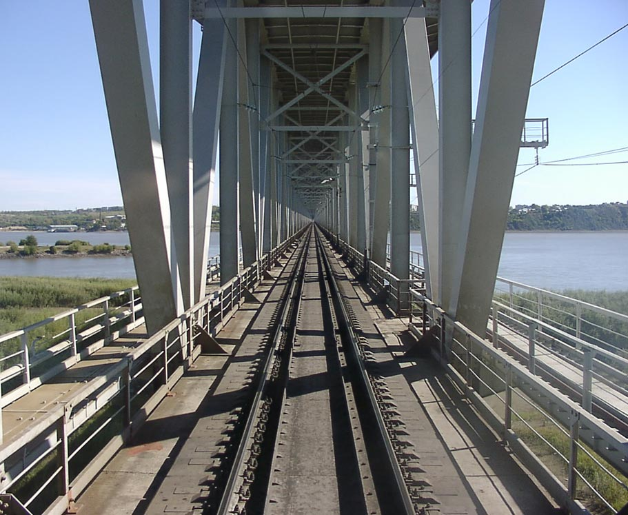 Khabarovsk Bridge over Amur river after its reconstruction in 1999.